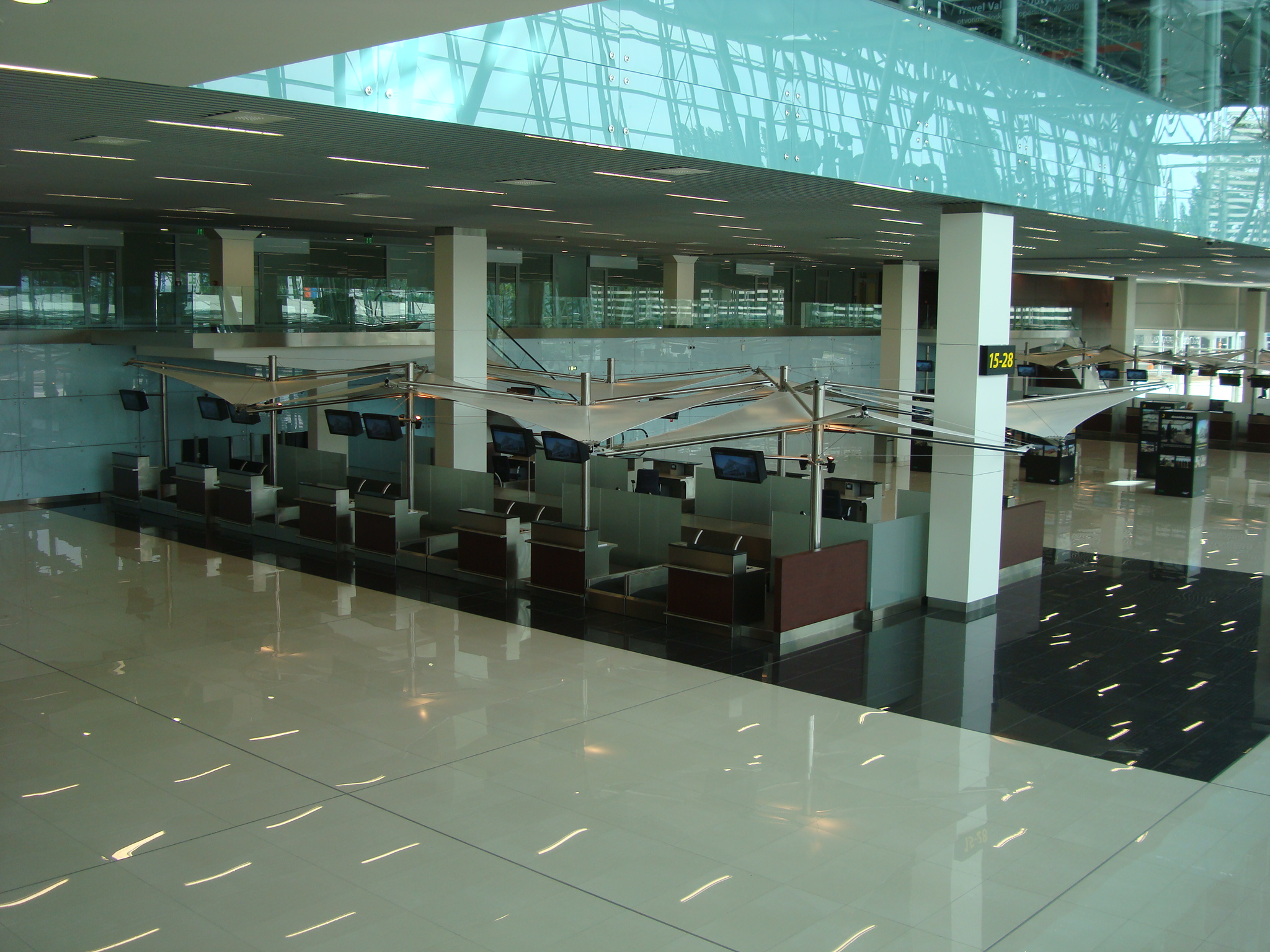 Check-in area at Bratislava Airport (BTS)